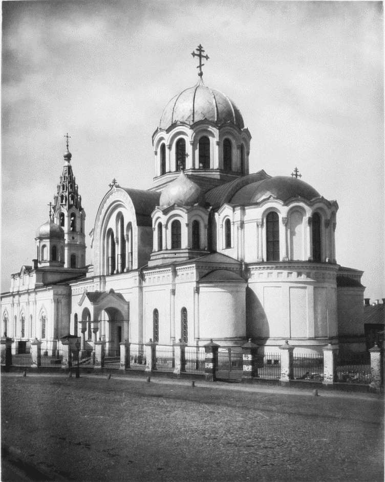 Moscow, Church of the Theotokos of Kazan at Kaluga Gate. 1876-1886 by Nikolay Vasilievich Nikitin (1828-1913). Destroyed in 1972.